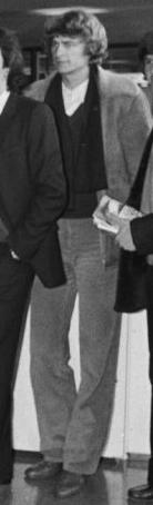 Players of RC Strasbourg